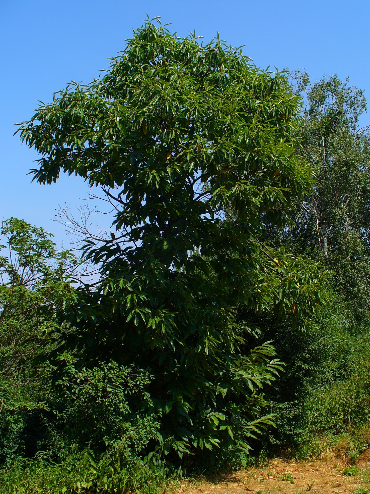 Castanea sativa, Fagaceae, Sweet Chestnut, habitus.